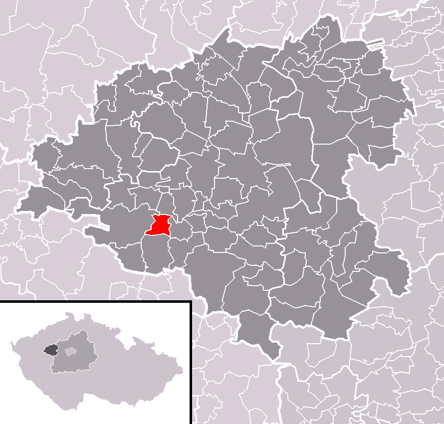 Location of Všesulov municipality within Rakovník District and (identical) administrative area of Rakovník as a Municipality with Extended Competence.